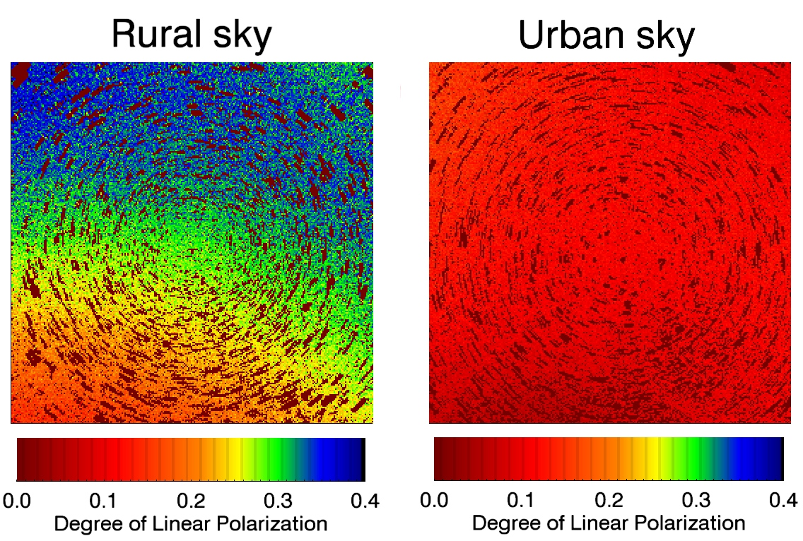 These false color images compare the degree of linear polarization of the moonlit sky under different light pollution conditions. In the image at left the characteristic bands of polarization of Rayleigh scattered moonlight are clearly visible, while in the image at right light pollution from the city of Berlin washes out the signal. The photos are centered on the North Star. The technique used to determine the polarization requires multiple photographs, leading to false polarization signals from the the movement of bright stars. For this reason, the brightest star trails were removed.